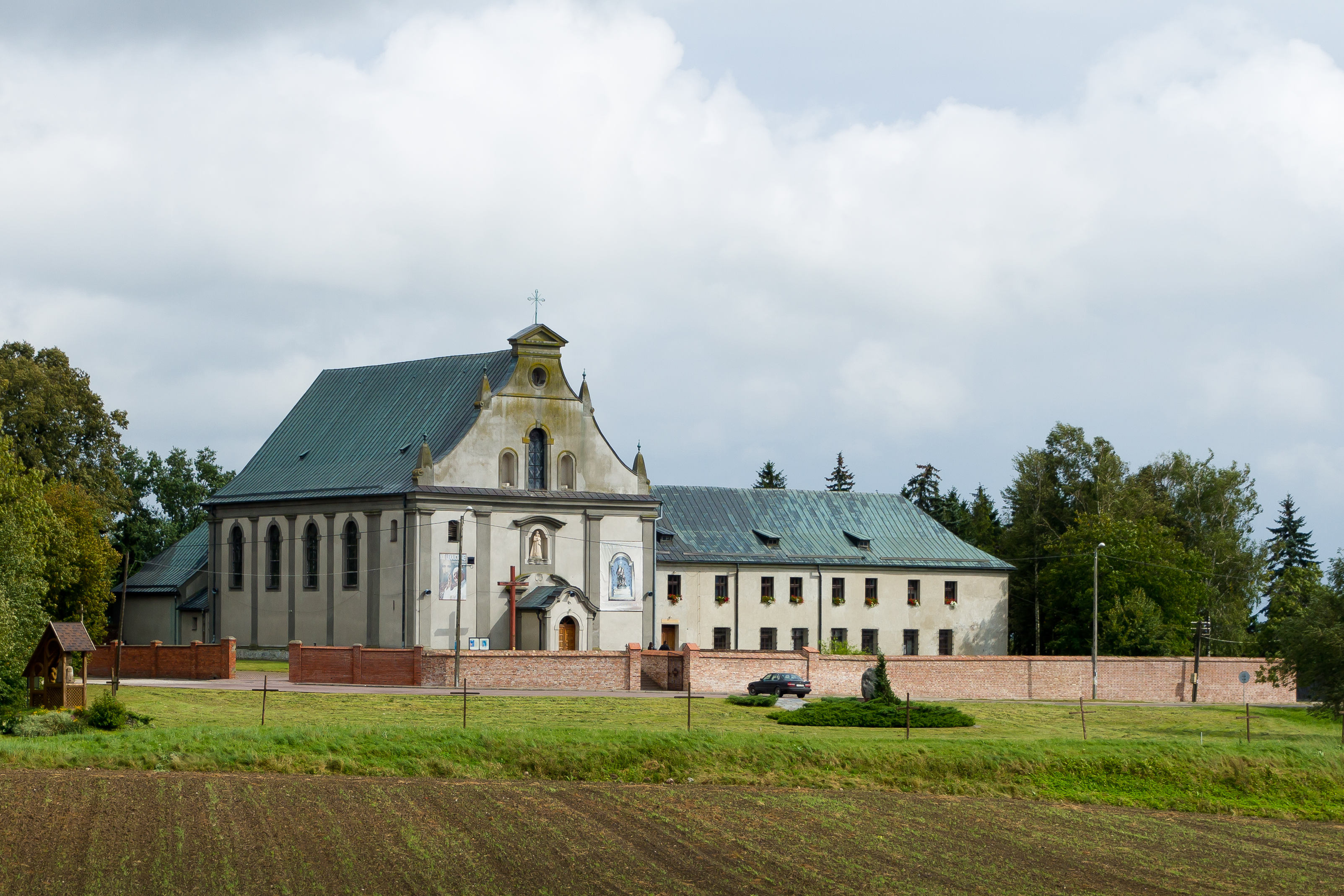 church and monastery in Rywald. Poland